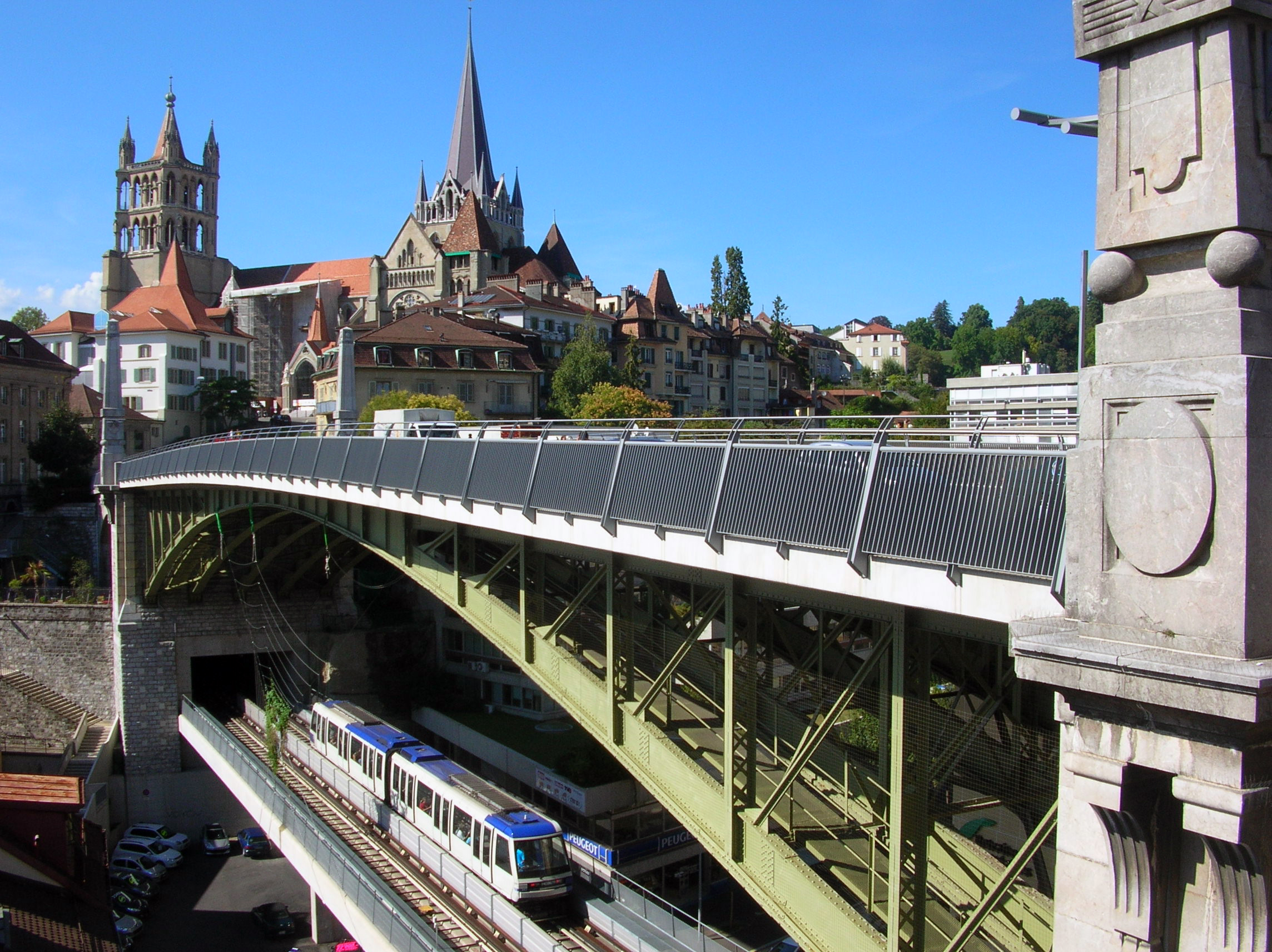 Lausanne (Switzerland) : the Cathedral, the Bessières Bridge (road, above) and the St-Martin Bridge (metro line M2, below).